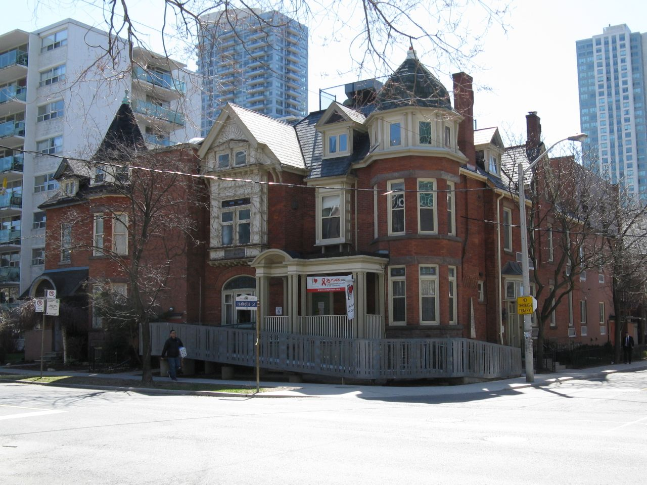 Casey House Toronto, southeast corner of Isabella and Huntley Streets, before the scheduled rebuilding of the hospital.